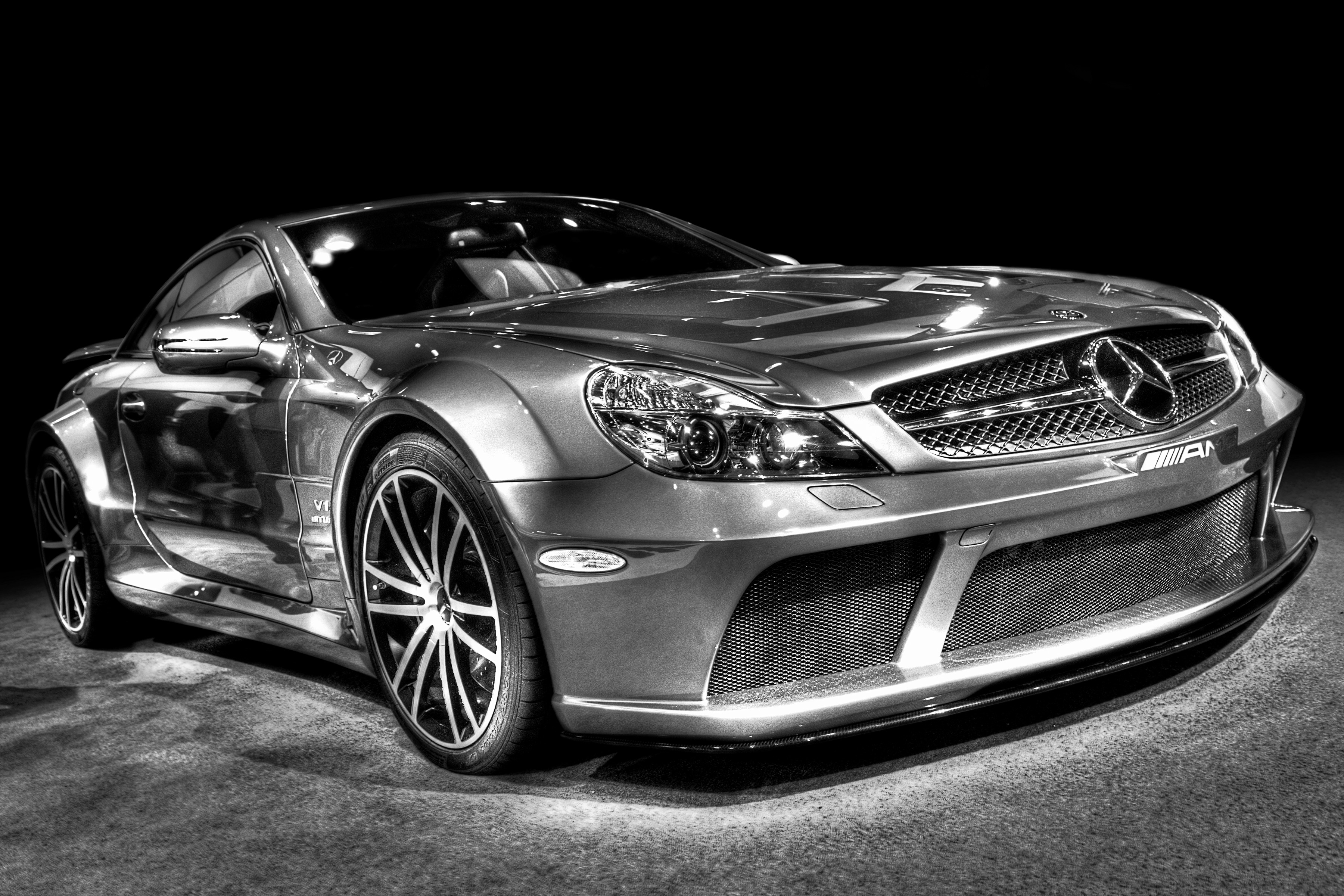 A Mercedes-Benz SL65 AMG Black Edition from the Chicago Auto Show.